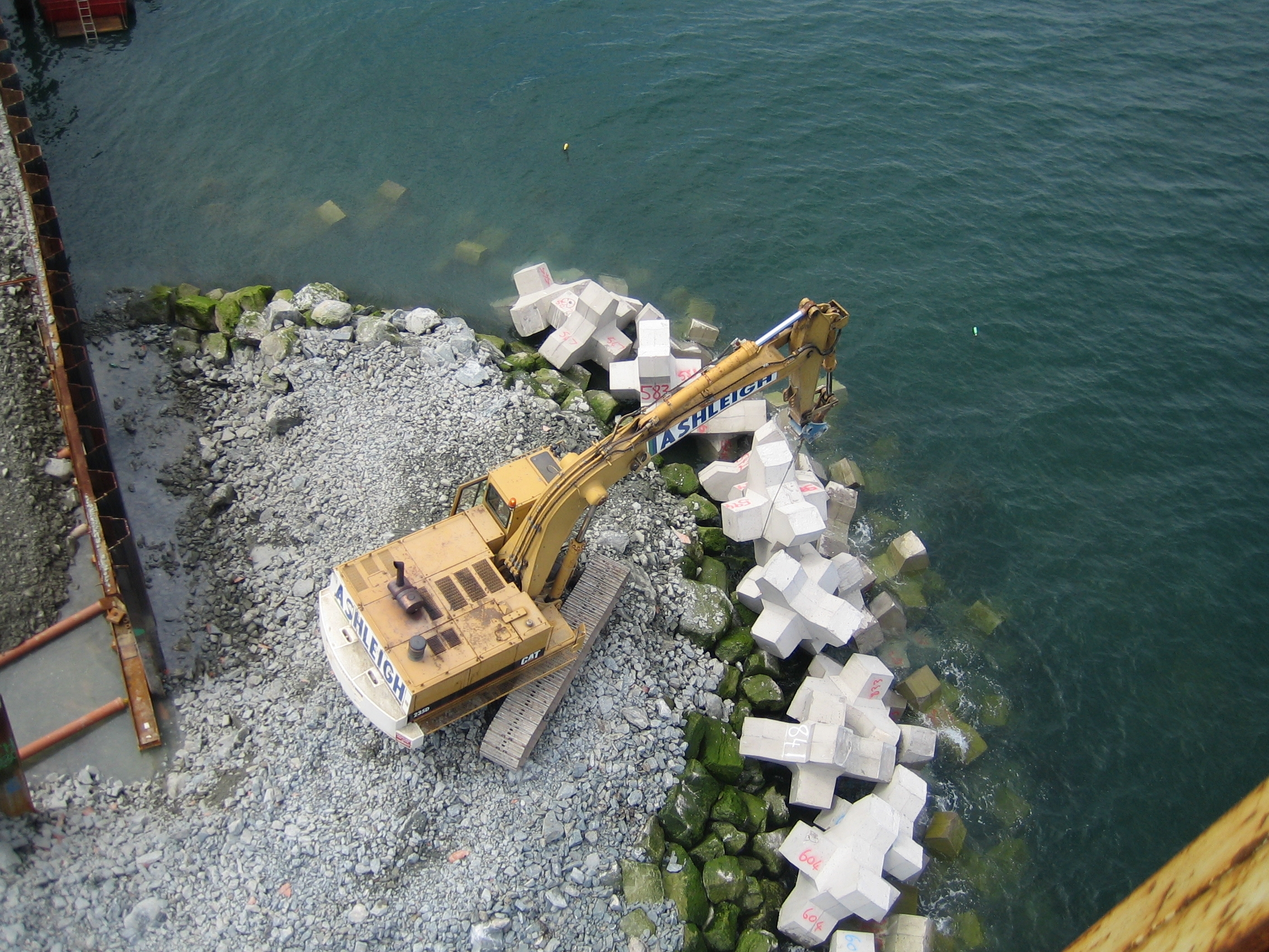 Xbloc installation at Port Oriel